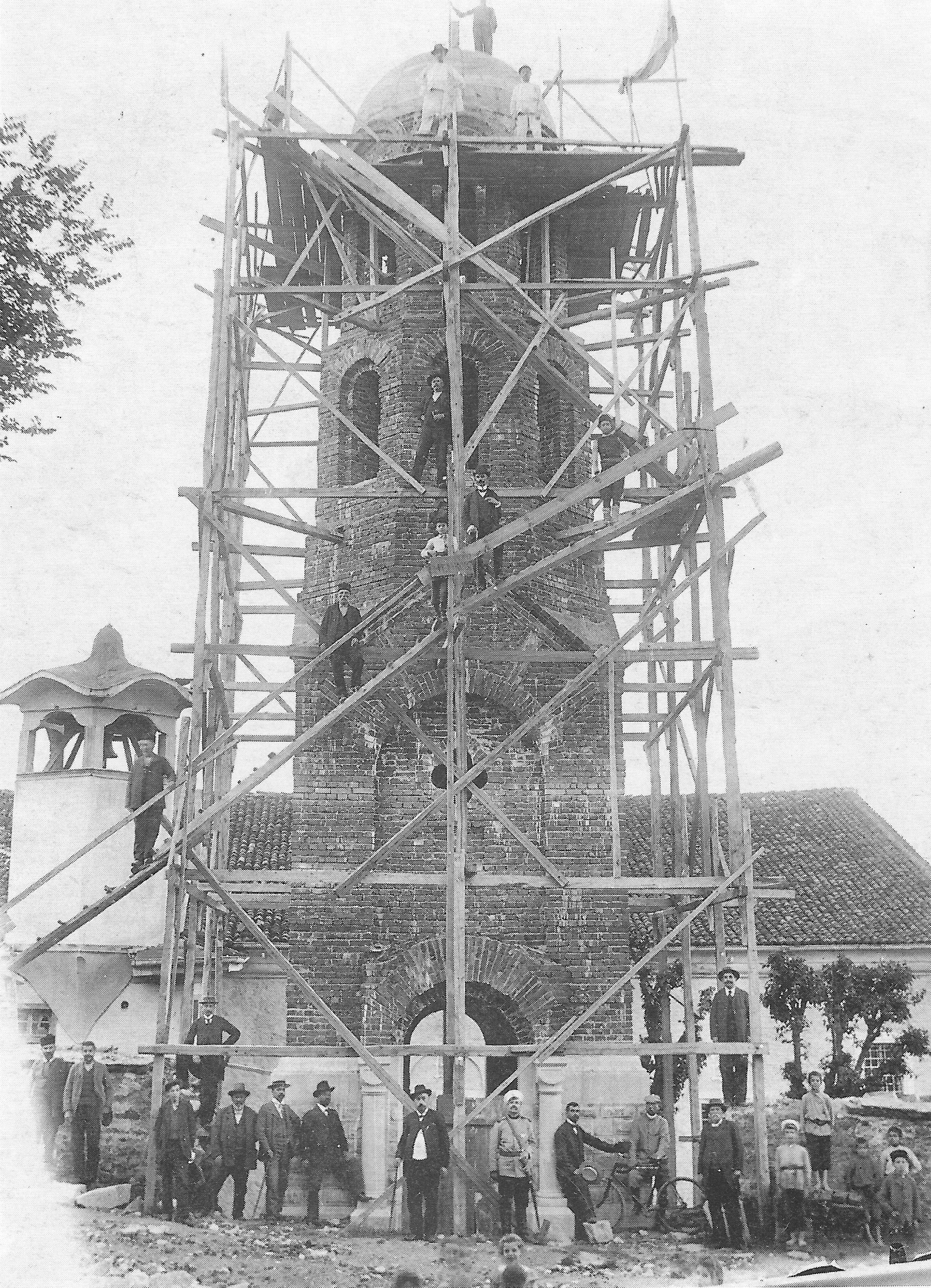 Belfry of the St. Nedelya Church, Plovdiv, Bulgaria